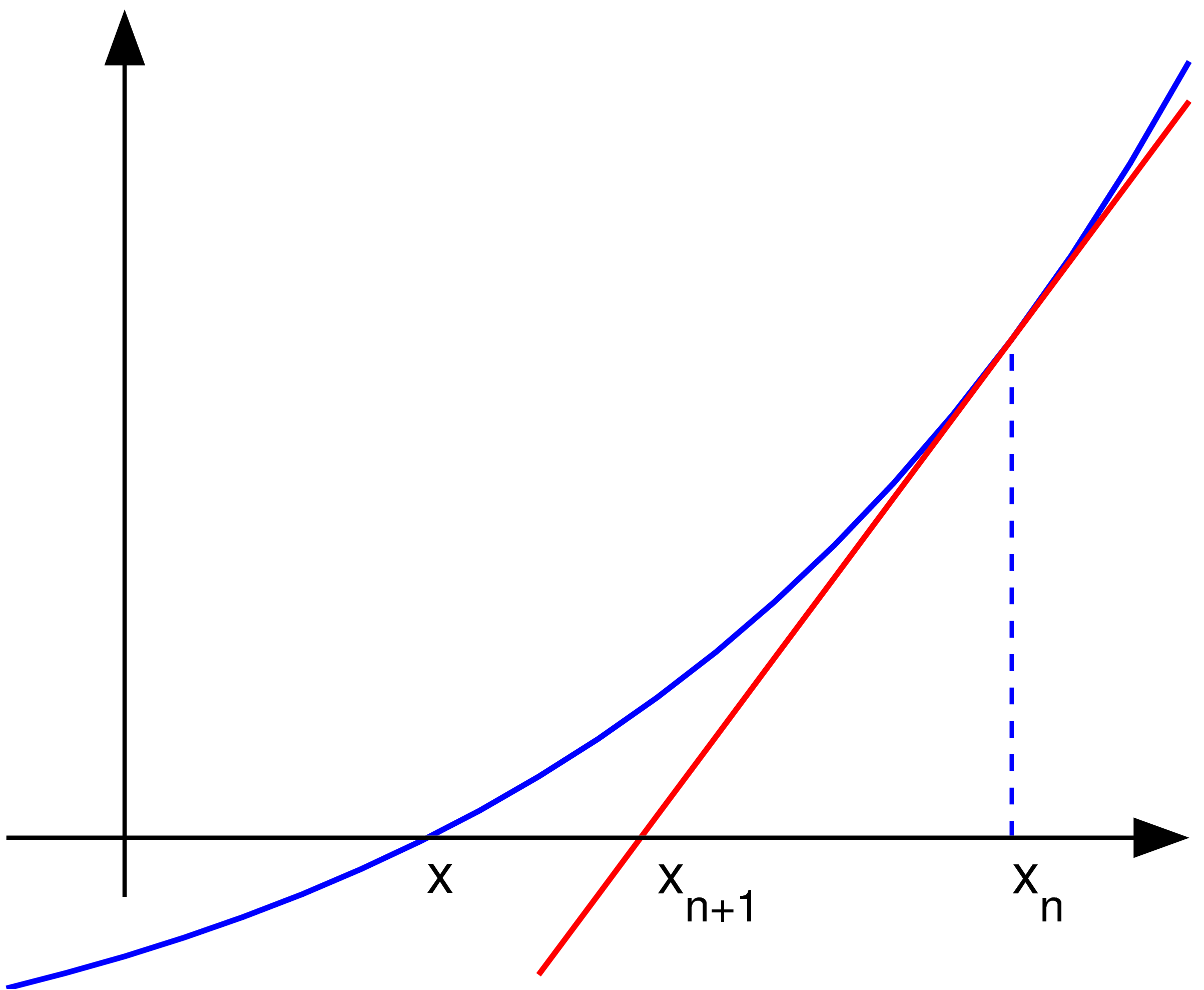 Uploader graphed this with MATLAB (Illustration of Newton's method)